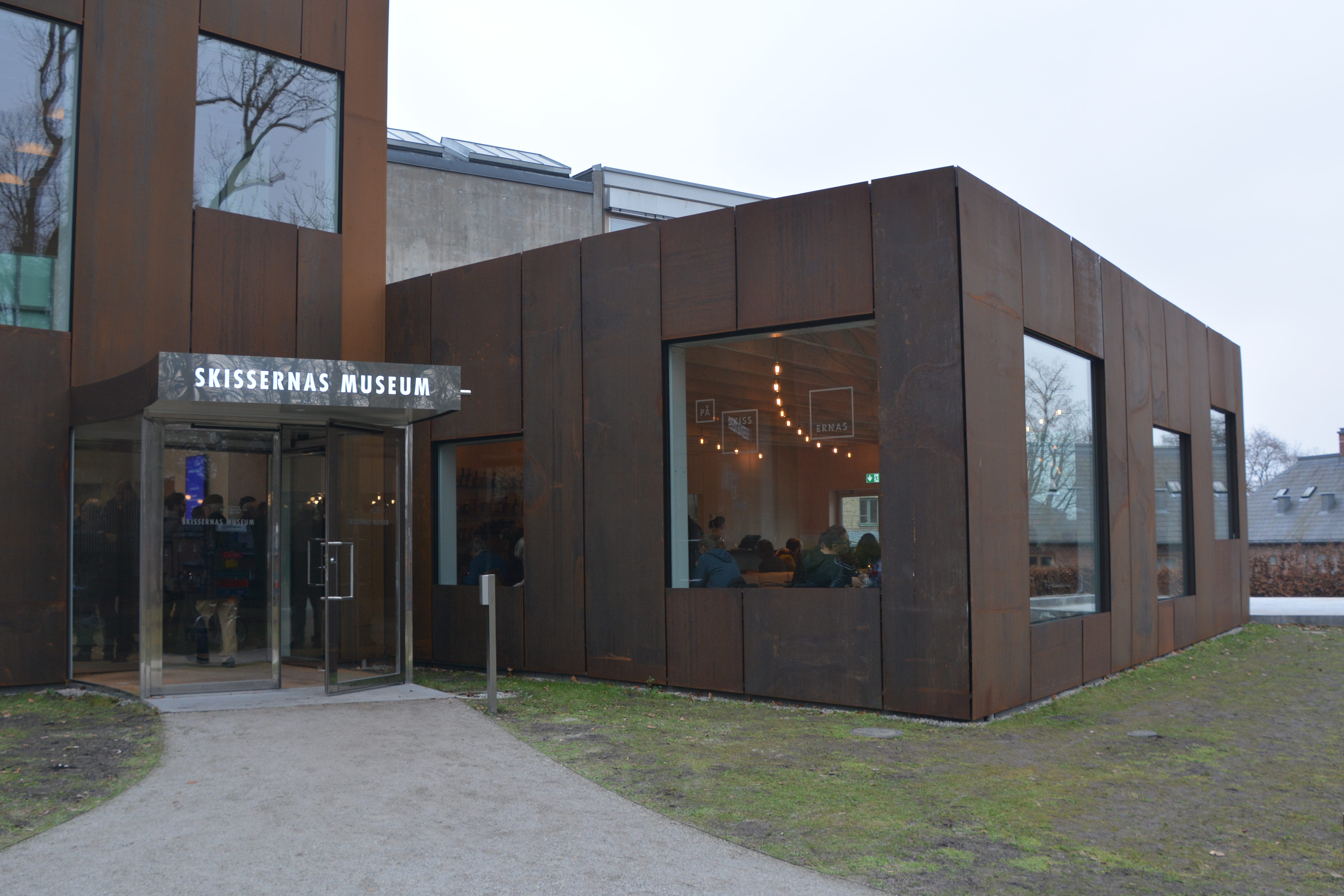 Entré till Skissernas museum i Lund, byggd 2015-17